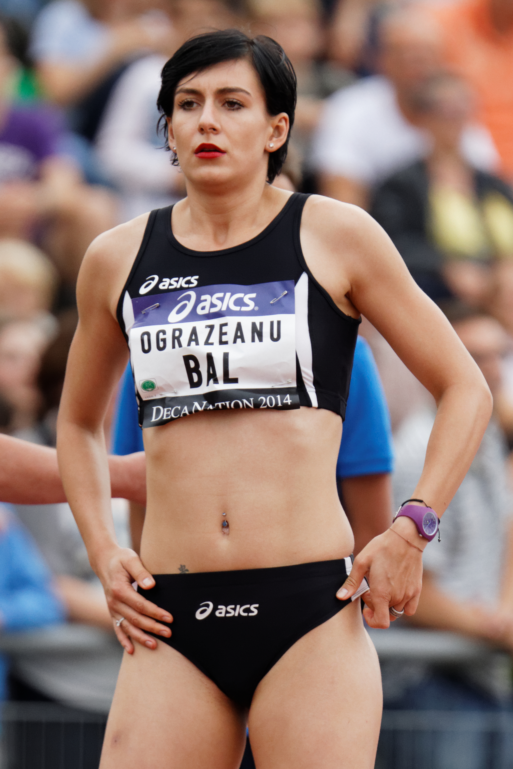 DécaNation 2014. 100m.